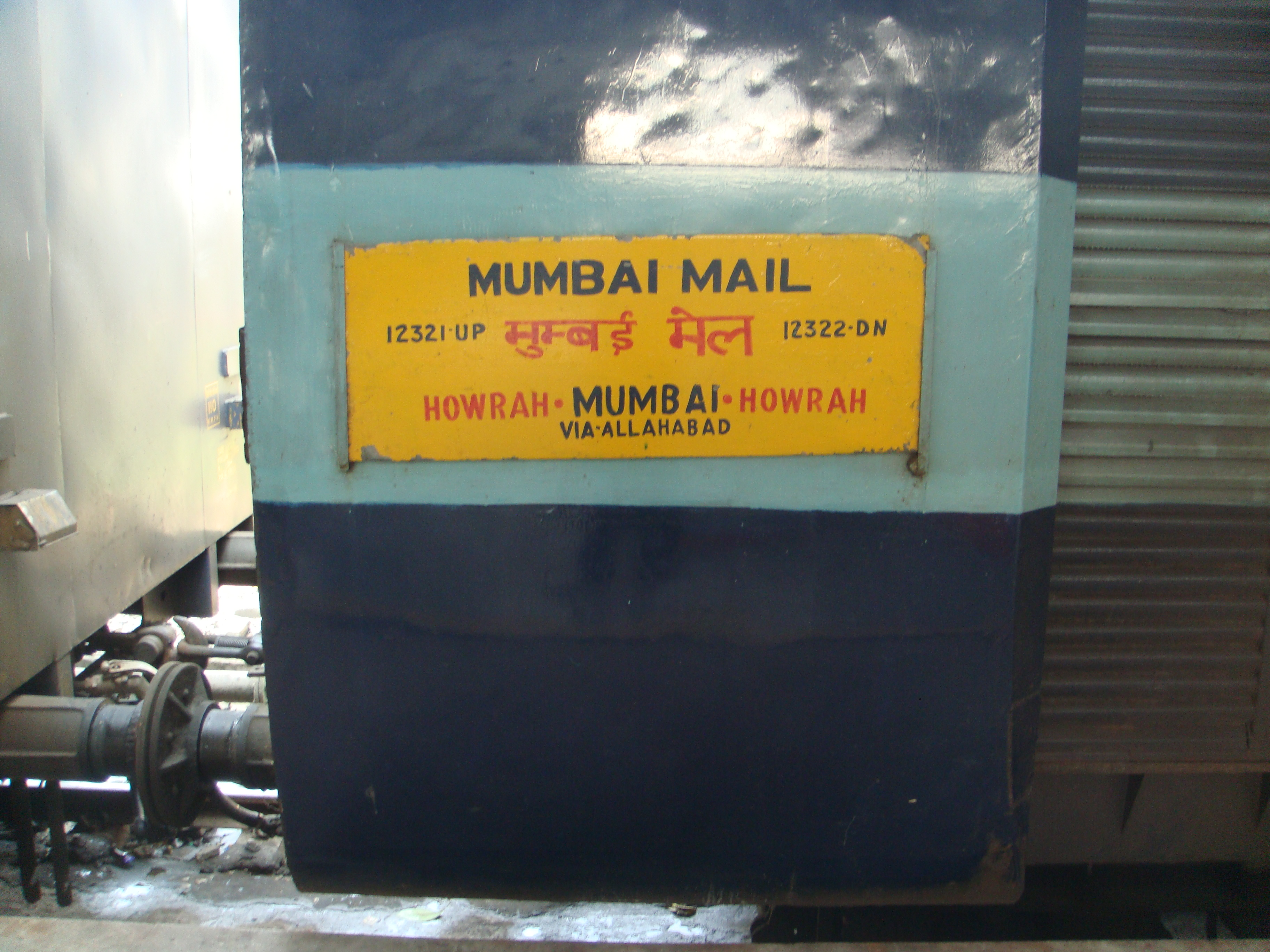 12322 Kolkata Mail